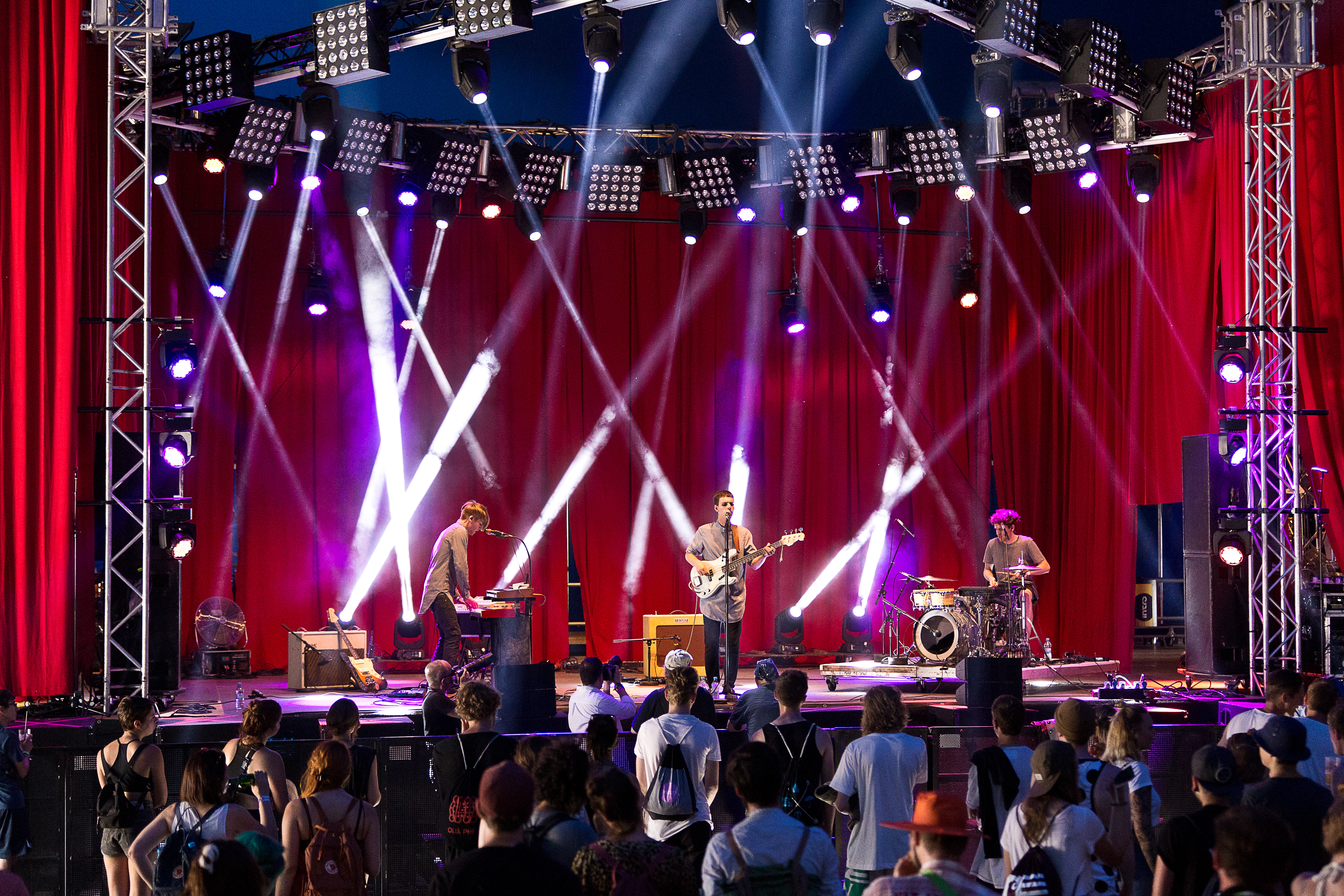 The German dream pop band Wyoming at the Melt! 2015 in Ferropolis/Germany.